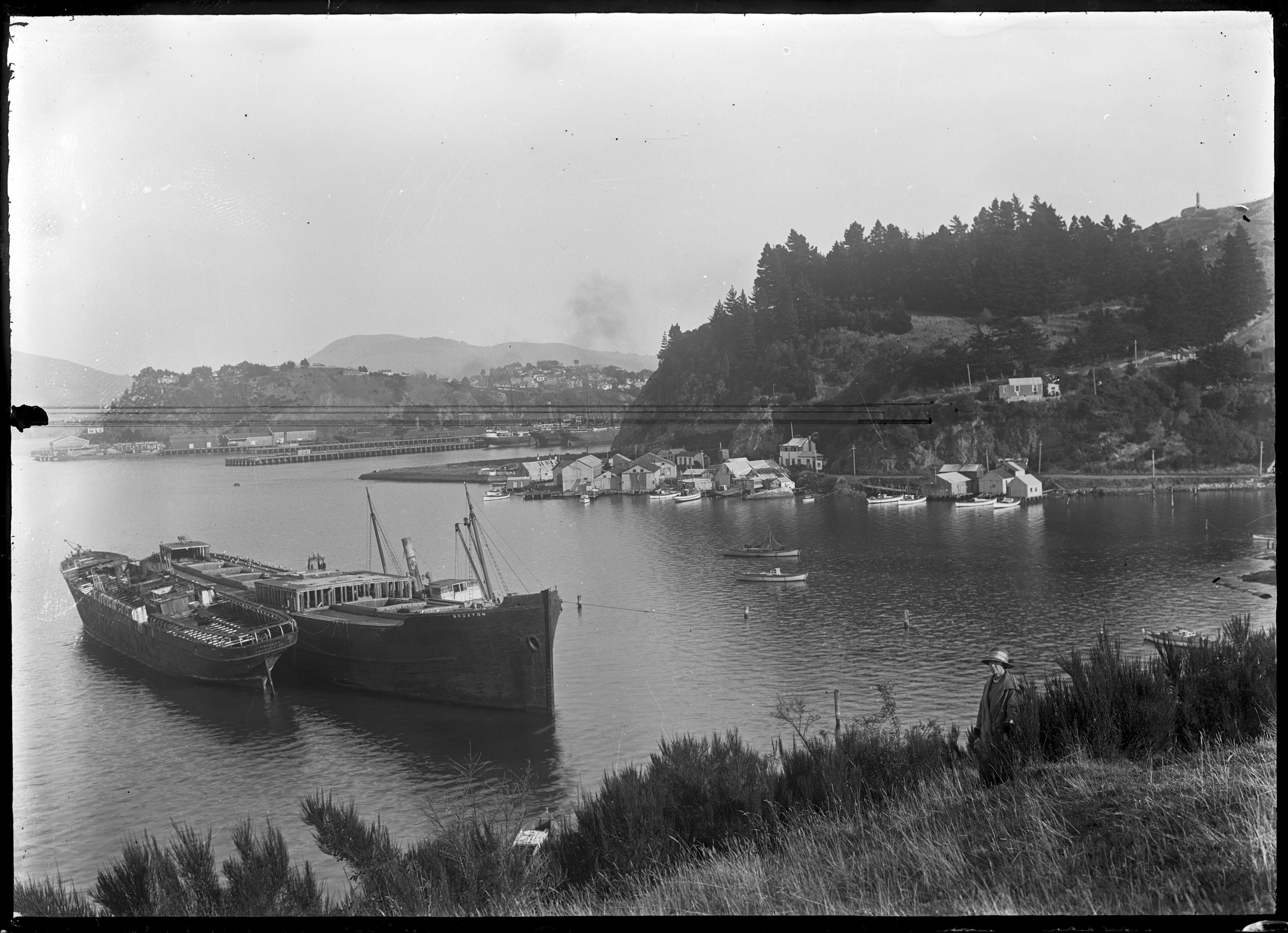 View across Carey's Bay with the hulks of SS Stella and SS Broxton in the left foreground. There are boatsheds in the centre, with Port Chalmers in the distance. A woman is standing left foreground, probably the photographer's wife Laura Godber. Photographed by Albert Percy Godber in 1926.